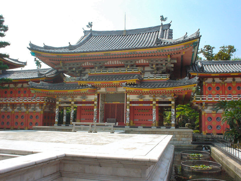 Hondō, Kōsanji, Onomichi, Hiroshima Prefecture, Japan